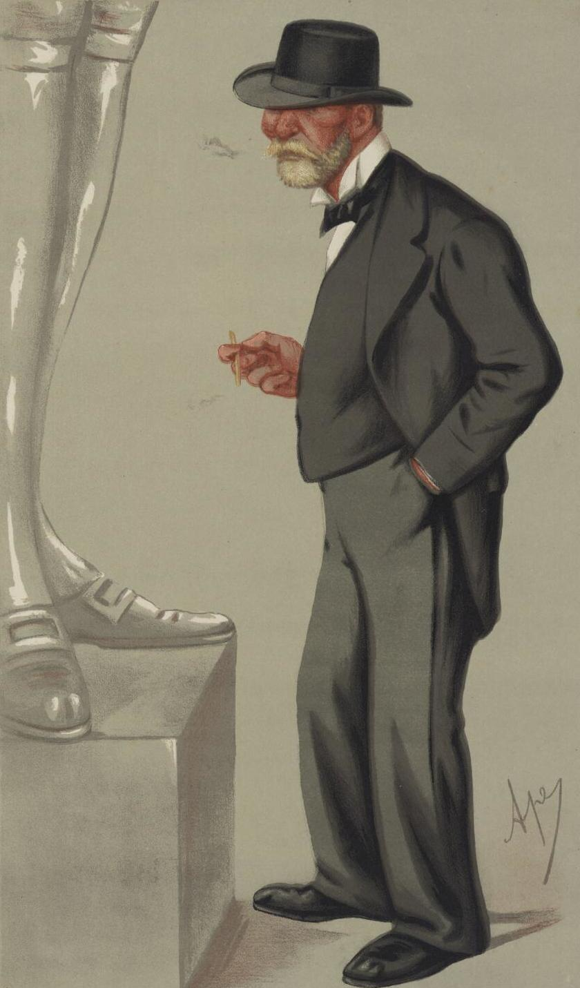 A portrait from the Welsh Portrait Collection at the National Library of Wales. Depicted person: Clarence Paget – British sailor, politician and sculptor